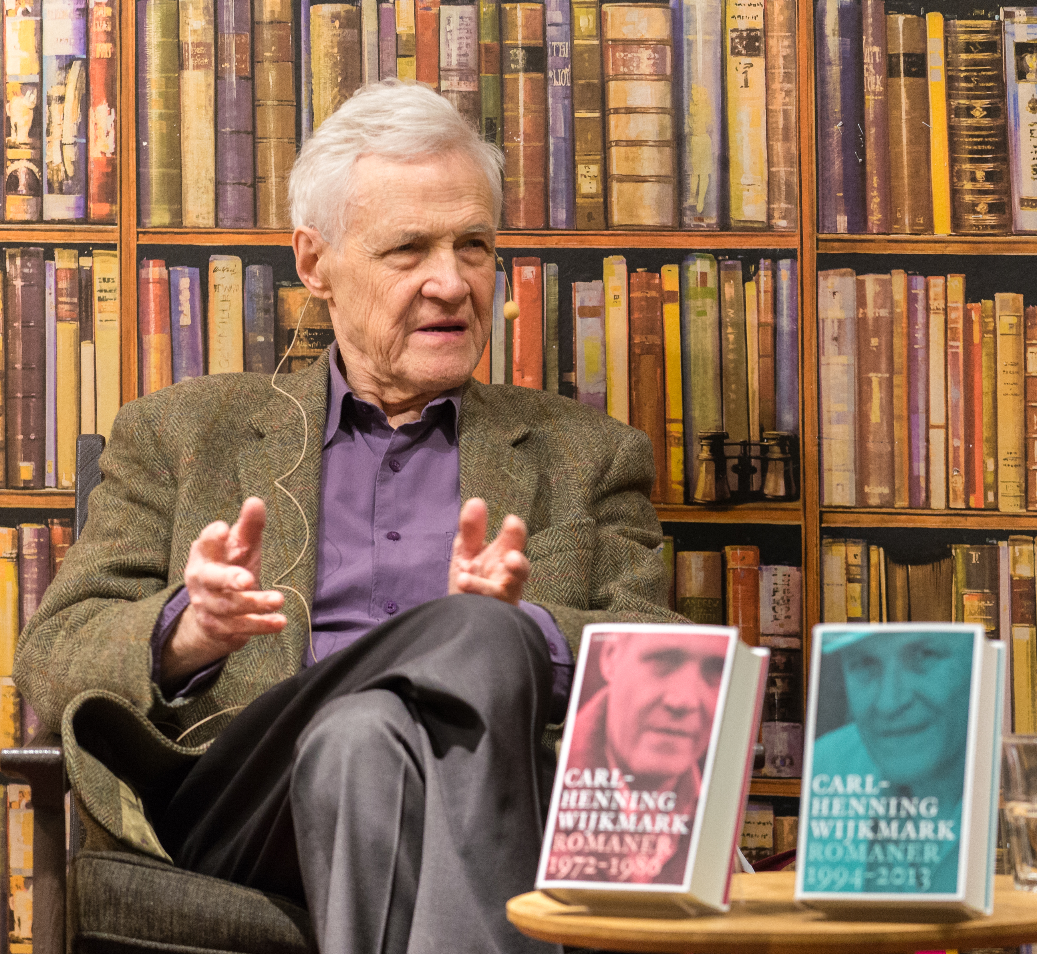 In conjunction with Carl-Henning Wijkmark's 80th birthday in November 2014, a collections edition will be published in two bands - from the 1972 debut with the Jägarna at Karinhall, via the 2007 August Prize-winning Stundande night through to his latest novel We'll See Again in the Next Dream, from 2013.